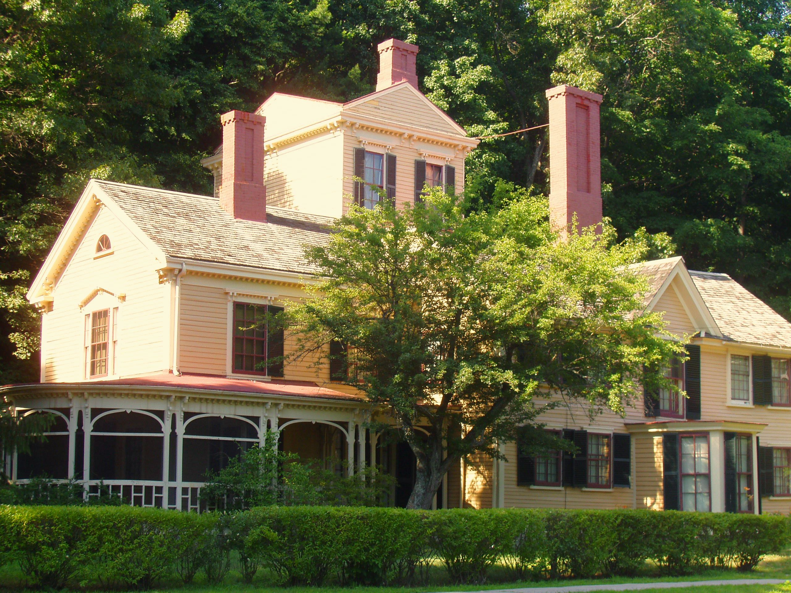 The Wayside, Concord, Massachusetts. Home to Louisa May Alcott and her sisters, Nathaniel Hawthorne, and Margaret Sidney, creator of the "Five Little Peppers".